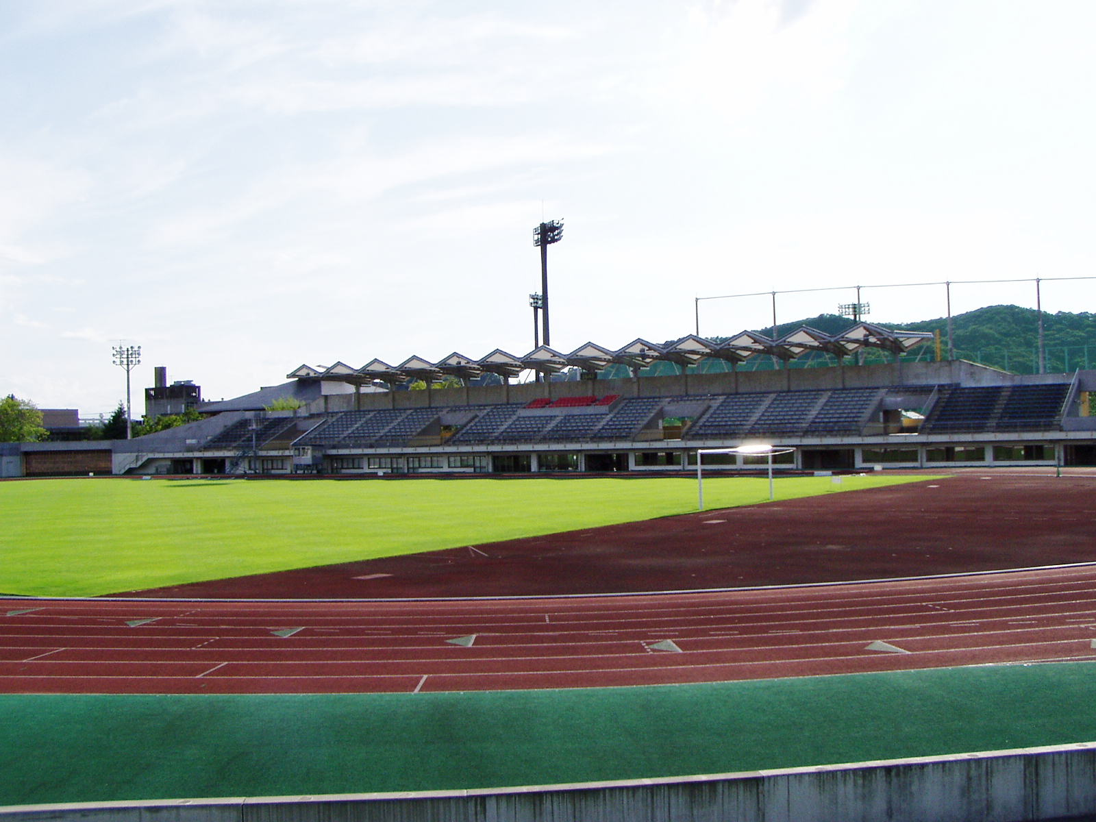 Ashikaga City Sports Park Stadium in Tochigi Prefecture, Japan